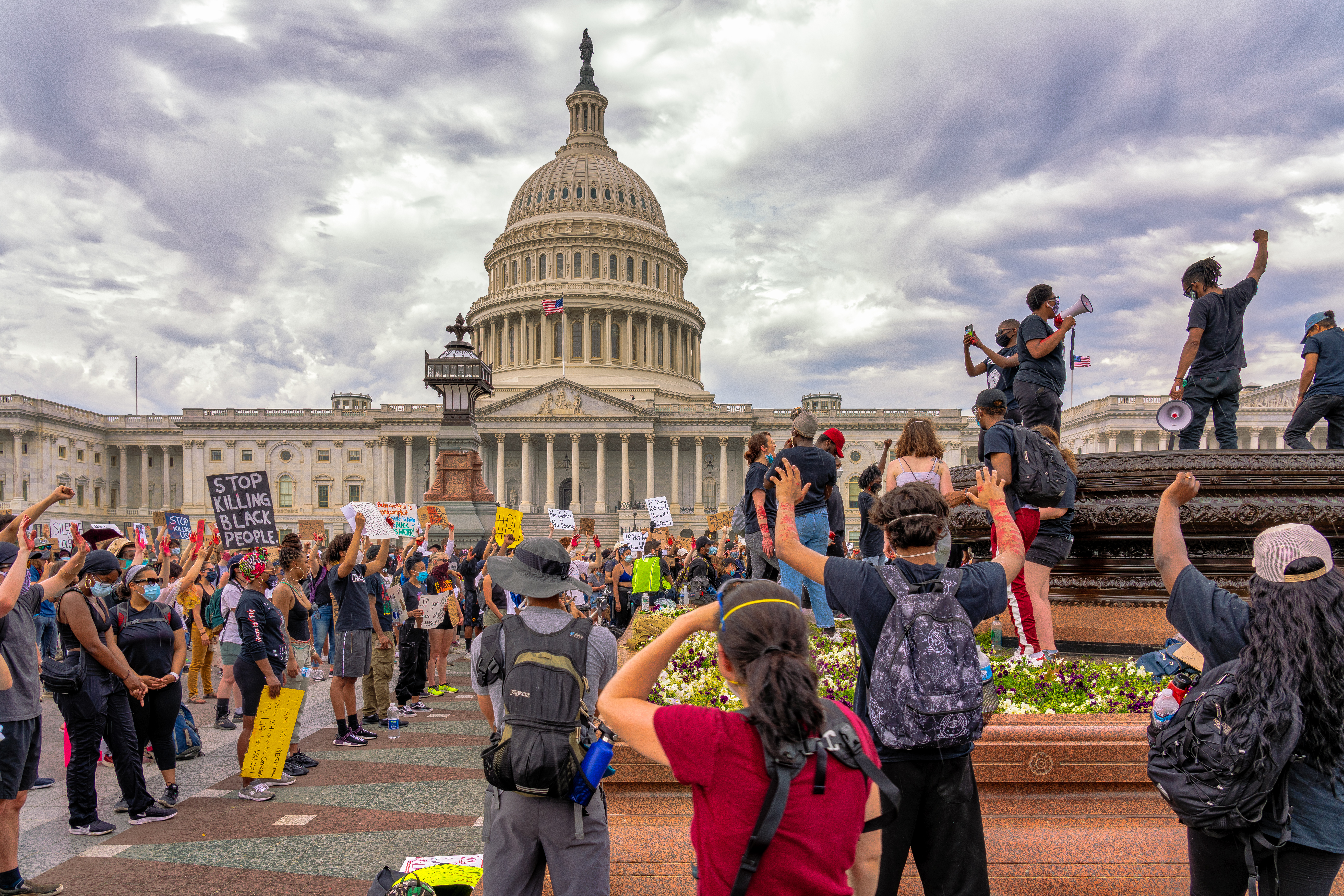 George Floyd Congress 2020